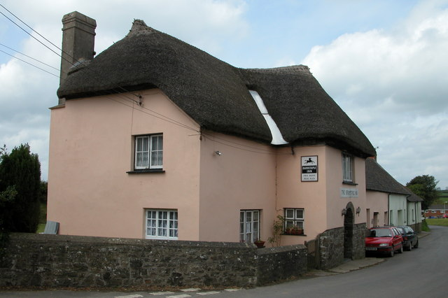 Barnstaple Inn, Burrington.